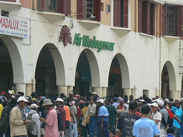 Main office of Air Madagascar, Avenue de l'independence, Analakely district of Antananarivo, Madagascar